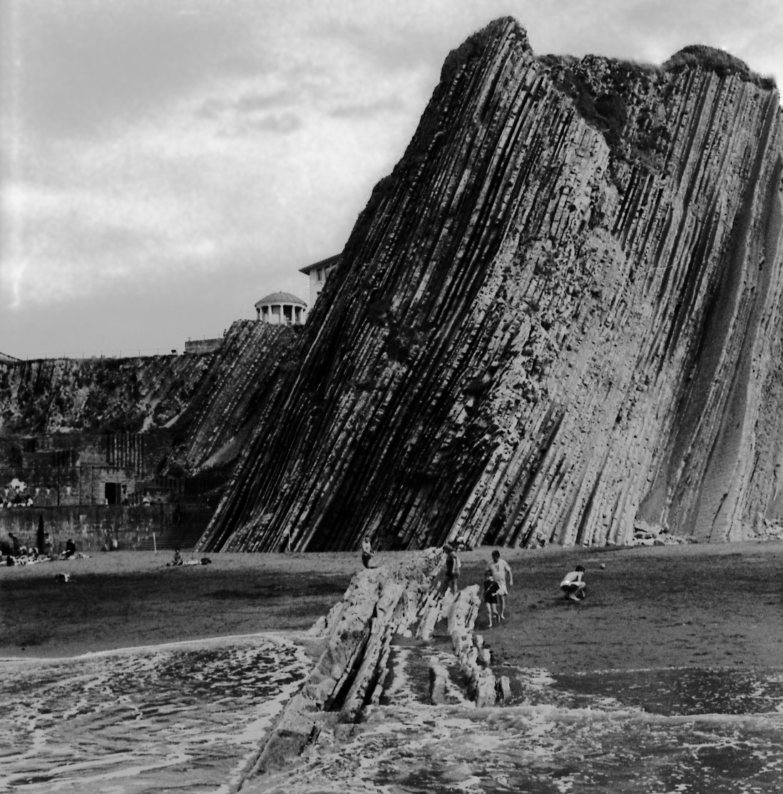 The Itzurun Beach in Zumaia, Spain (Basque Country), photographed in August 2013. Scan from a film photo.